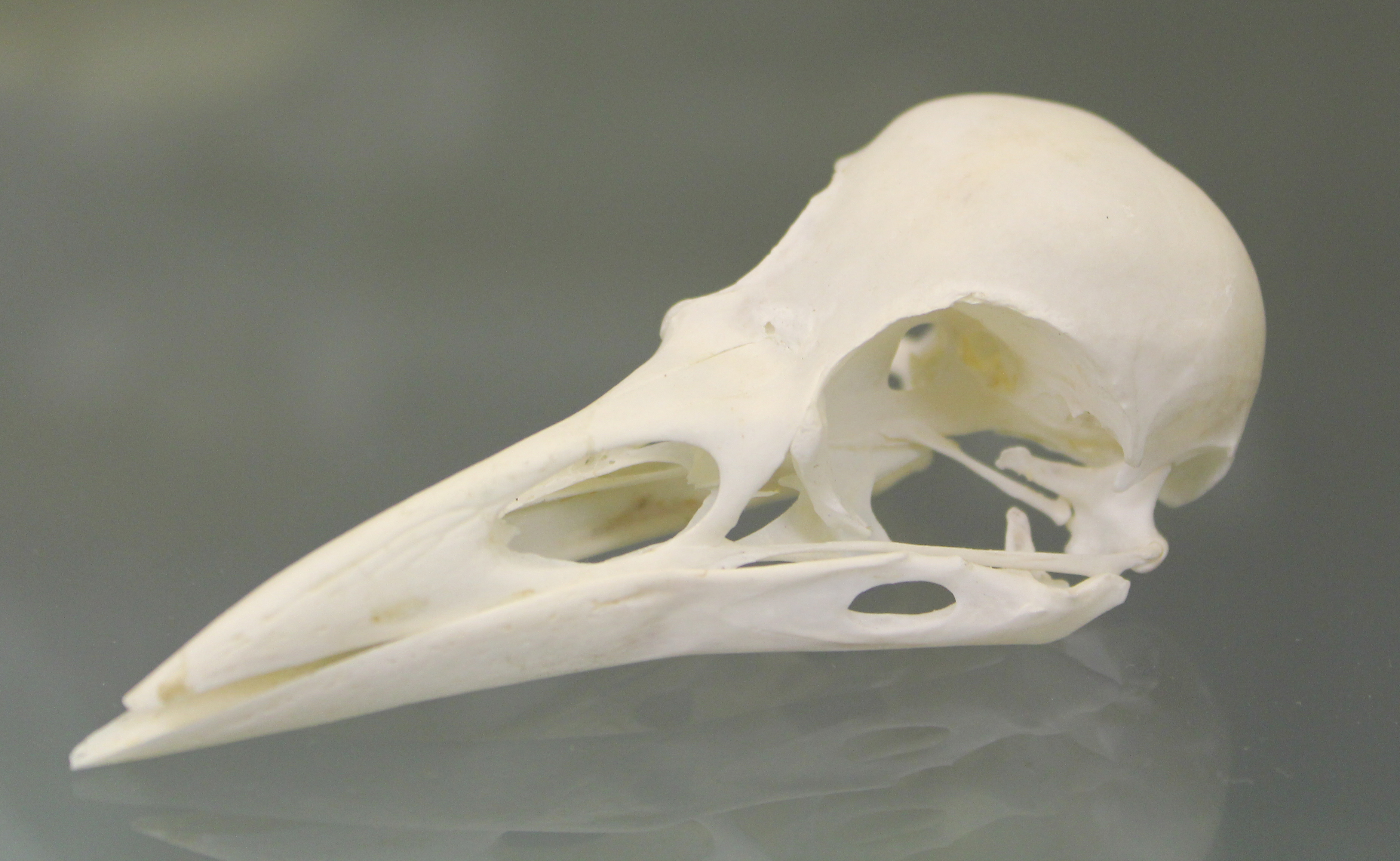 Rook (Corvus frugilegus) skull at the Royal Veterinary College anatomy museum